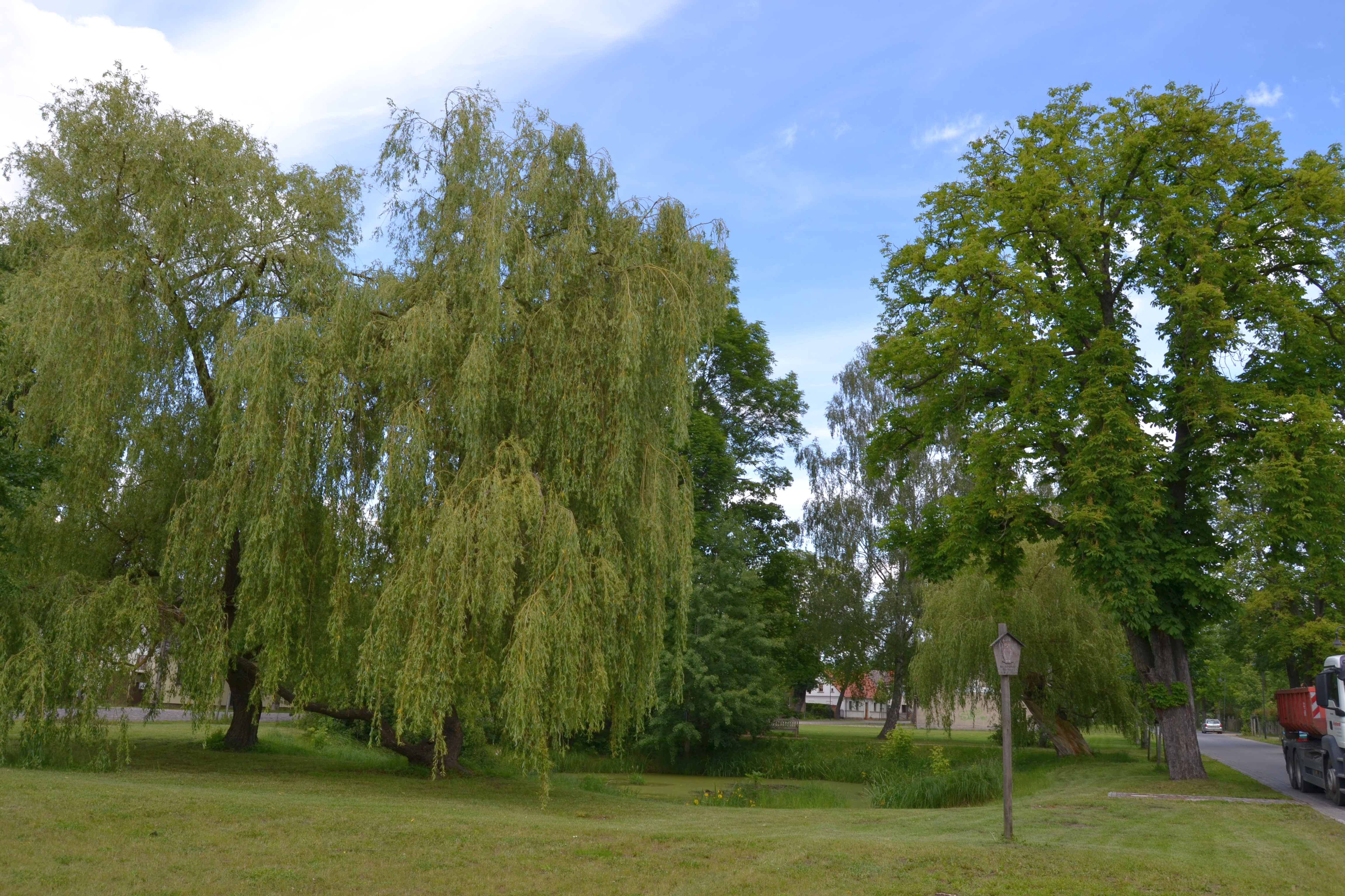 Bäckerpfuhl at the Village Green of Kleinschönebeck in Schöneiche bei Berlin